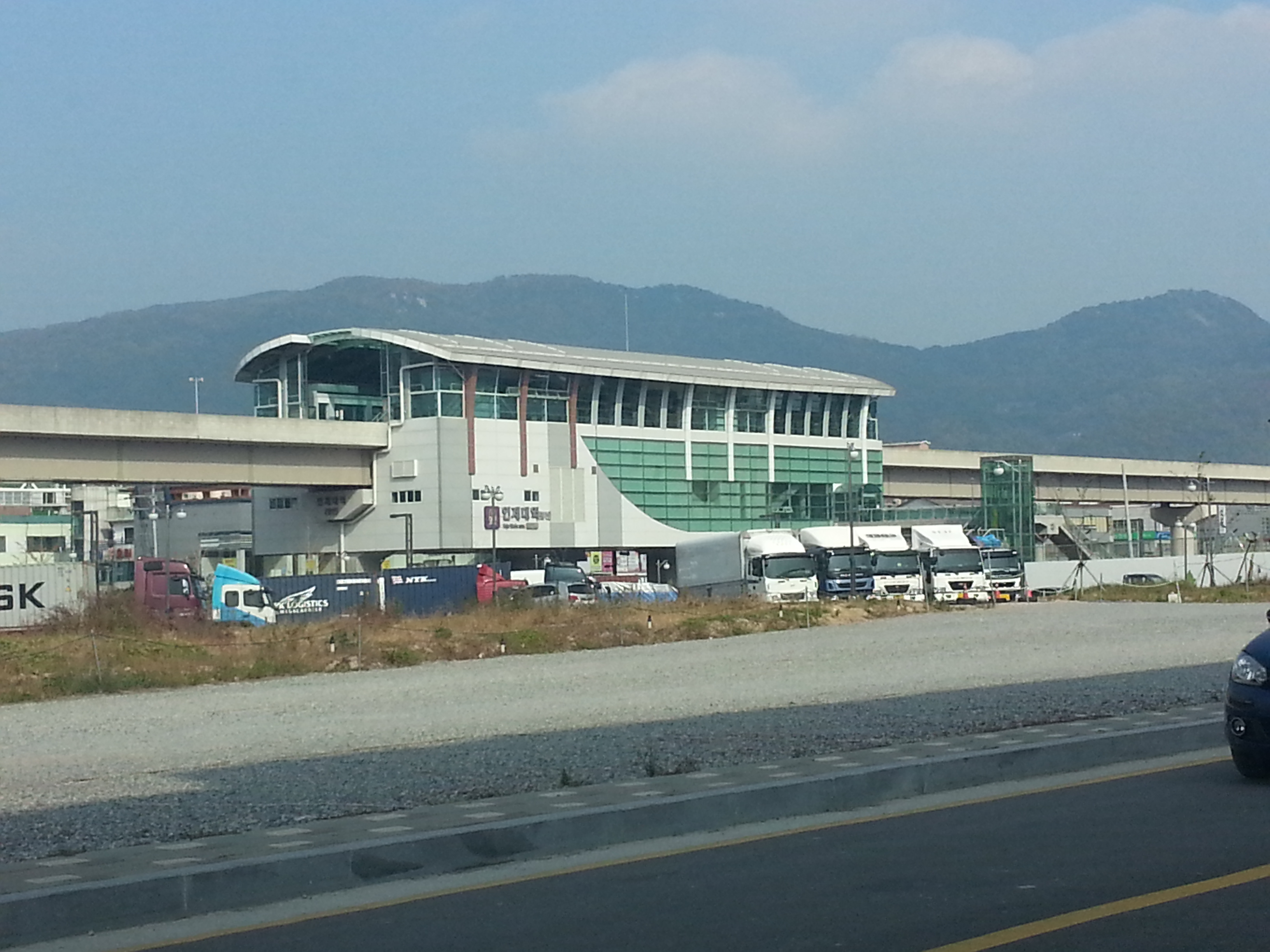 Inje University Station of Busan-Gimhae Light Rail Transit.